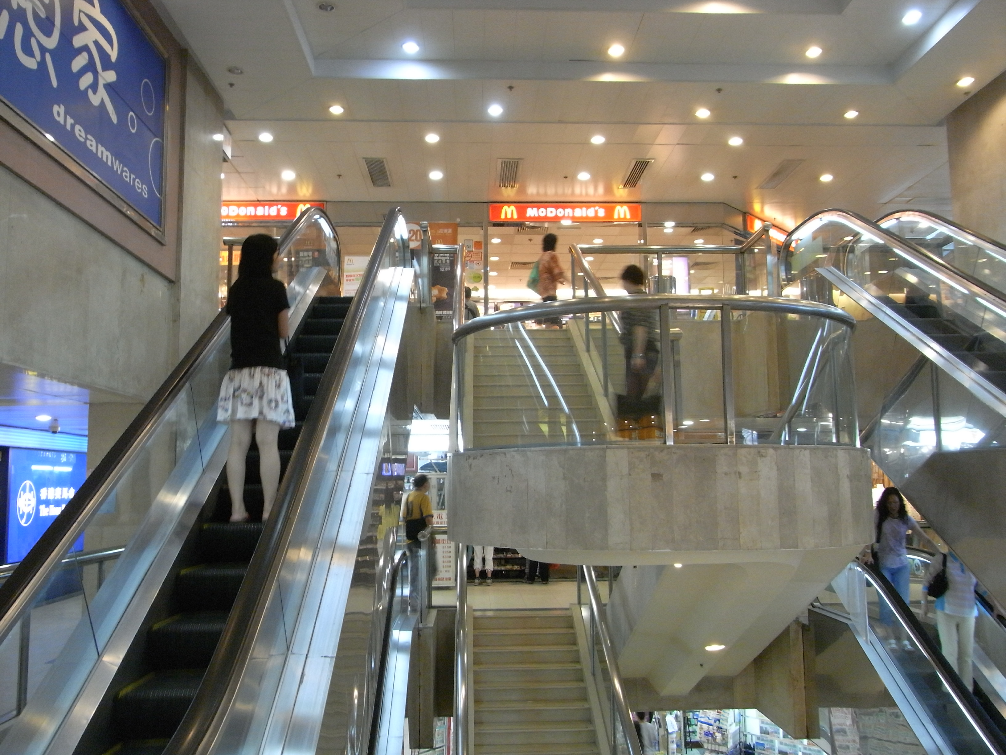 九龍灣 麗晶花園 麗晶商場 黃昏內景